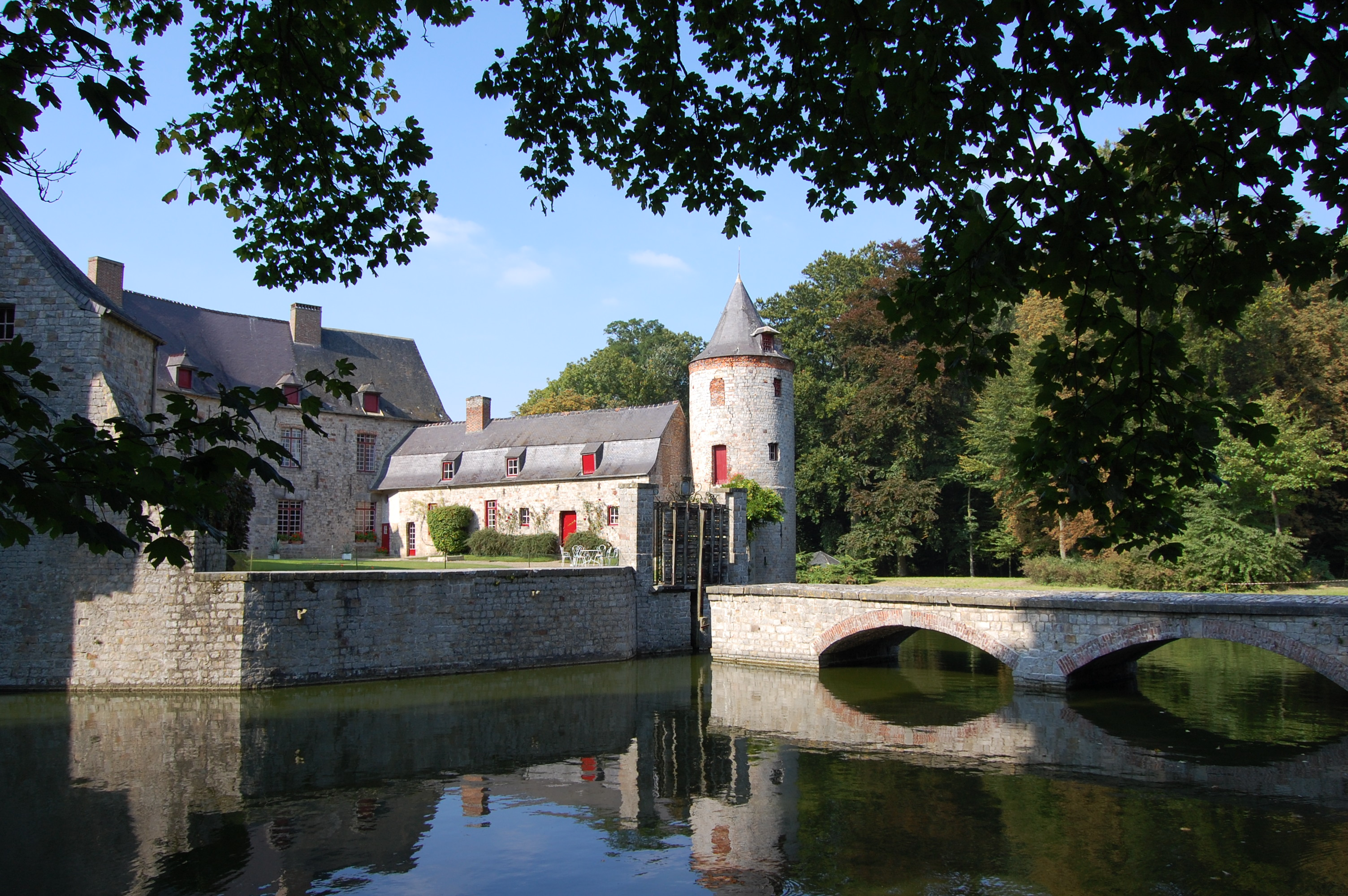 Potelle castle